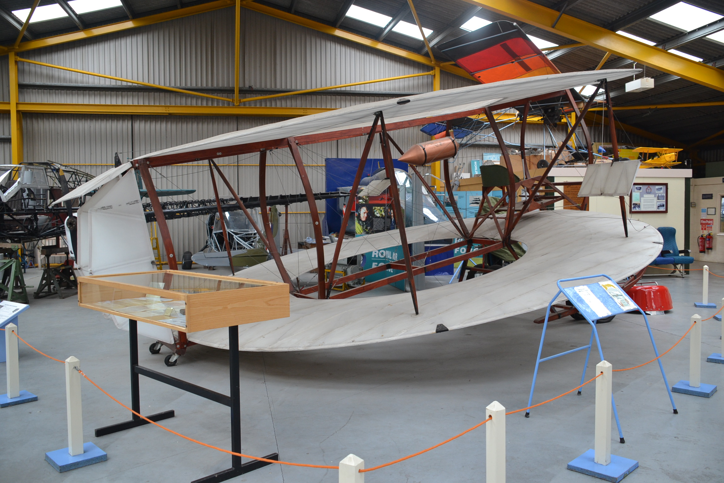 Lee-Richards Annular Biplane,built for the film "Those Magnificent Men in their Flying Machines," at Newark Air Museum, Winthorpe, Notts.,19/09/14.